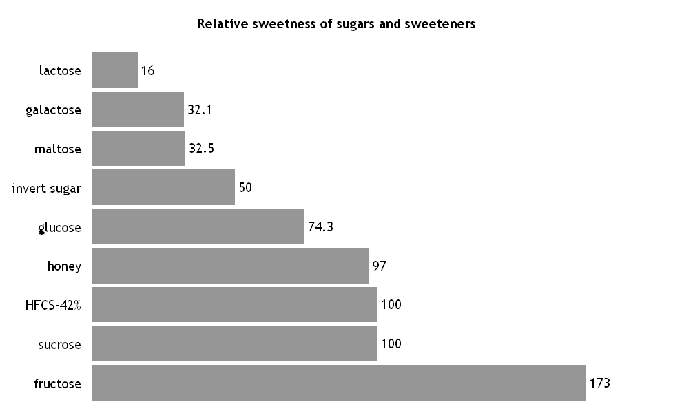 Relative sweetness of sugars and sweeteners